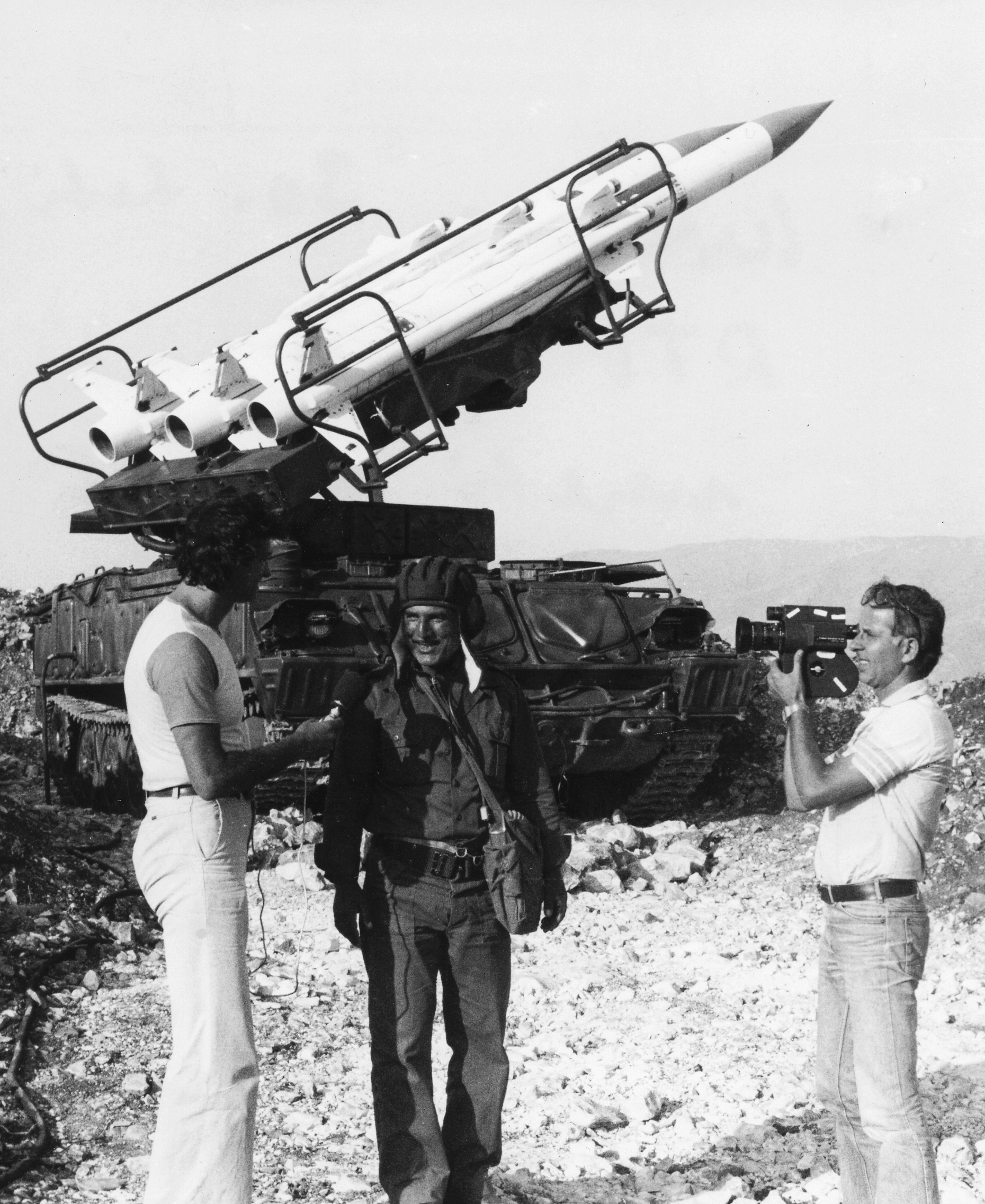 Soldier of the Sirian Army's air defense forces with the personel of the Hungarian TV show "Panoráma" in the Beqaa Valley, Lebanon